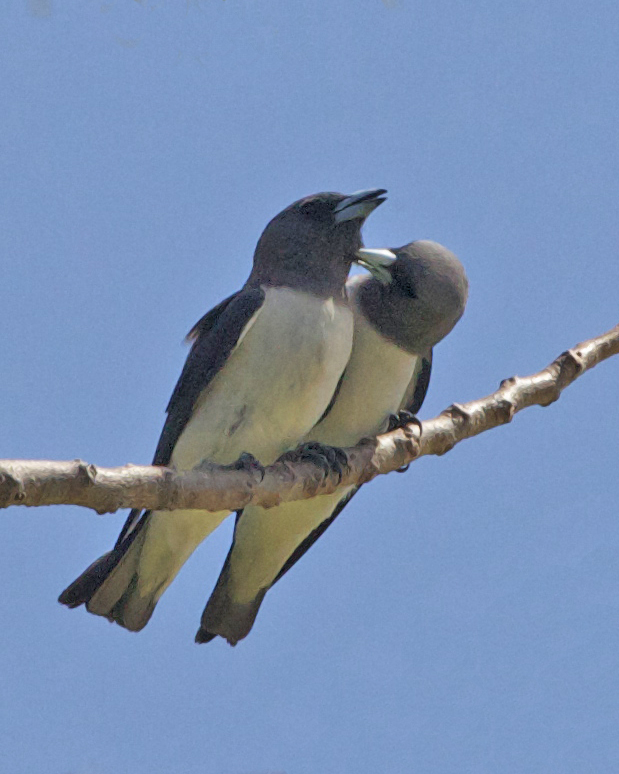 White-breasted Woodswallow (Artamus leucorynchus ssp Artamus leucorynchus amydrus) Golf course, Nusa Dua, Bali, Indonesia July 31st. 2010 690V6798